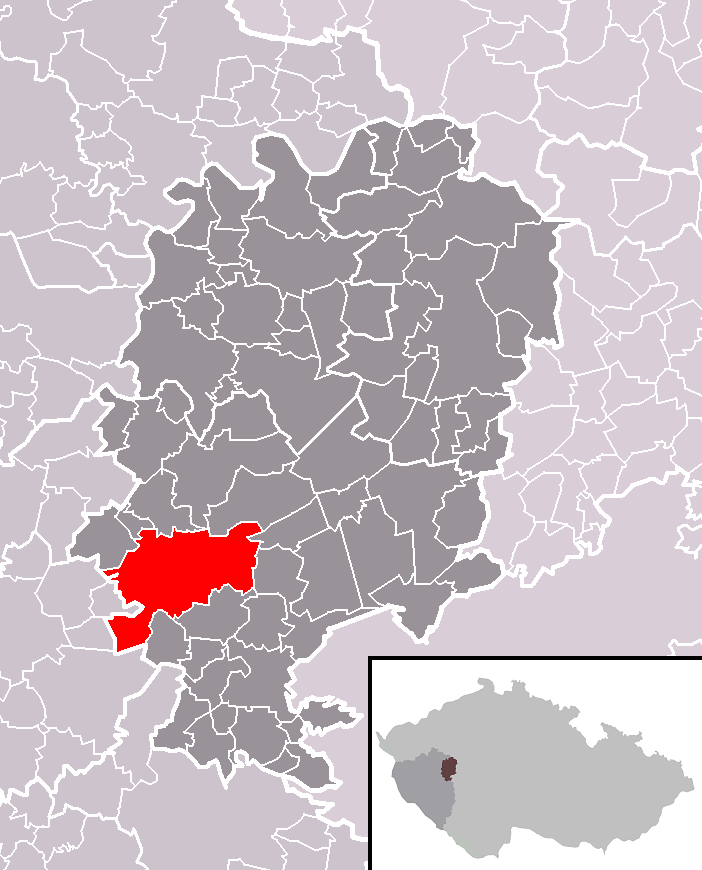 Location of Rokycany town within Rokycany District and identical administrative area of Rokycany as a Municipality with Extended Competence.